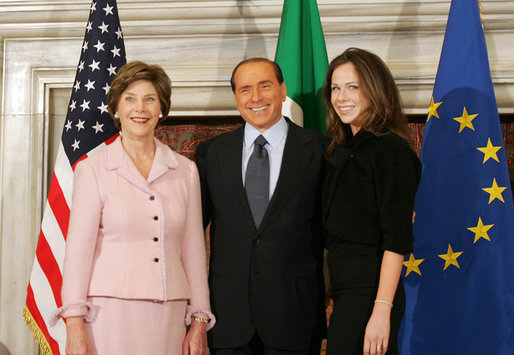 Mrs. Laura Bush and daughter, Barbara Bush, are greeted by Italian Prime Minister Silvio Berlusconi, Thursday, Feb. 9, 2006 at the Villa Madama in Rome.